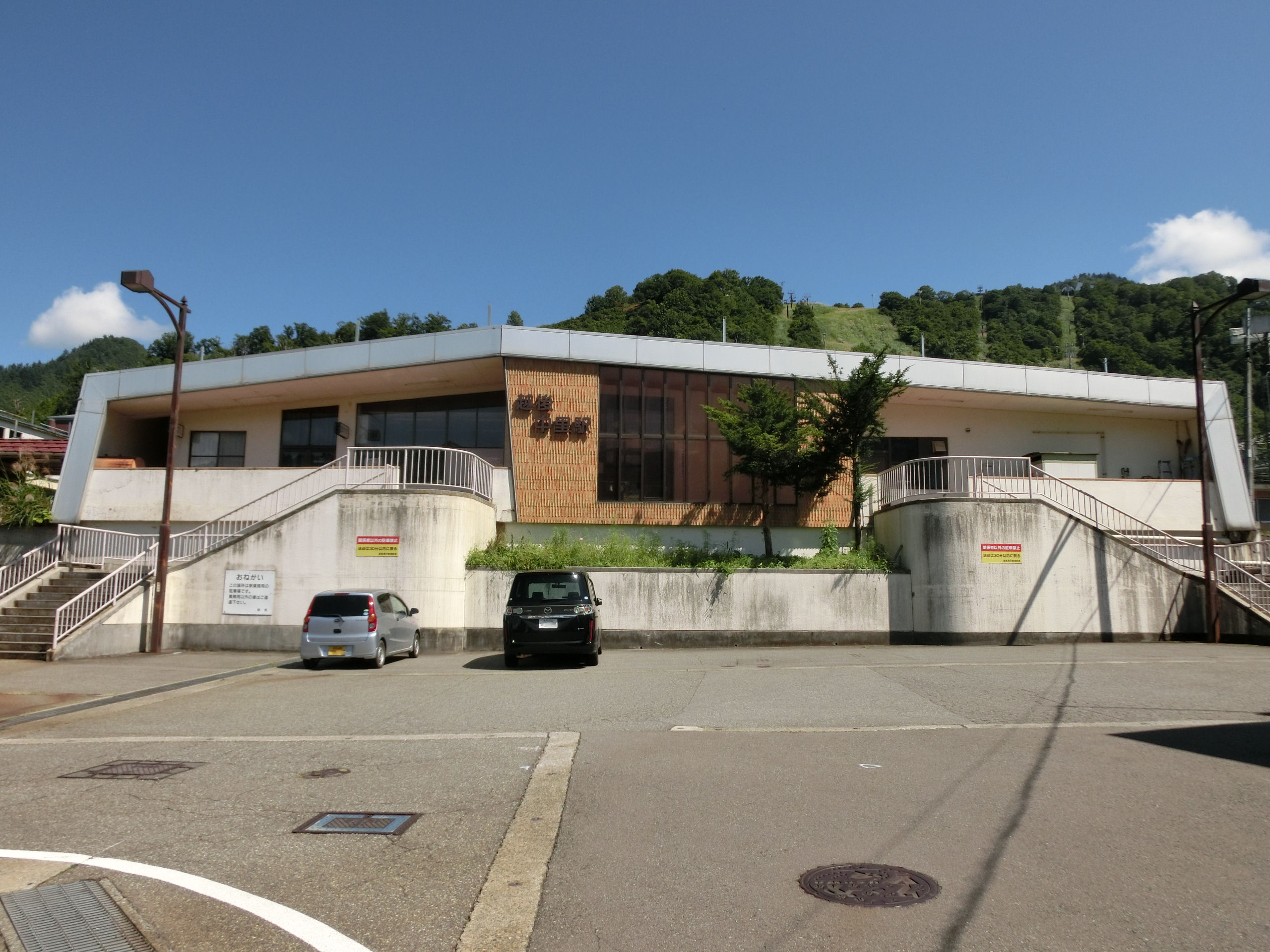 Echigo-Nakazato Station